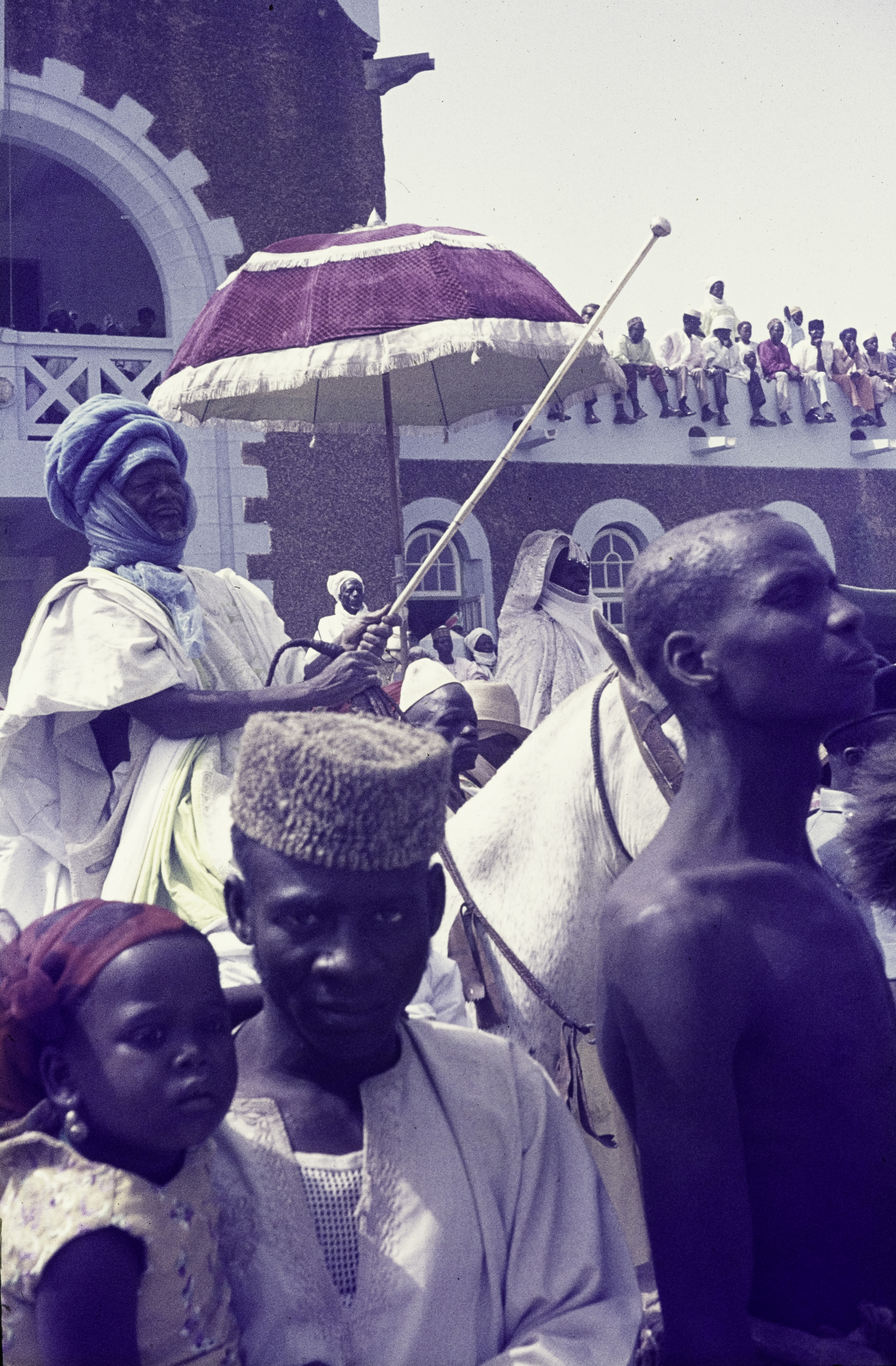 Sallah festivities in Bauchi. A group in beautiful clothes outside, rider on a white horse with a red-white parasol in front of the ceremonial ruler of Bauchi, in the background people on a roof.